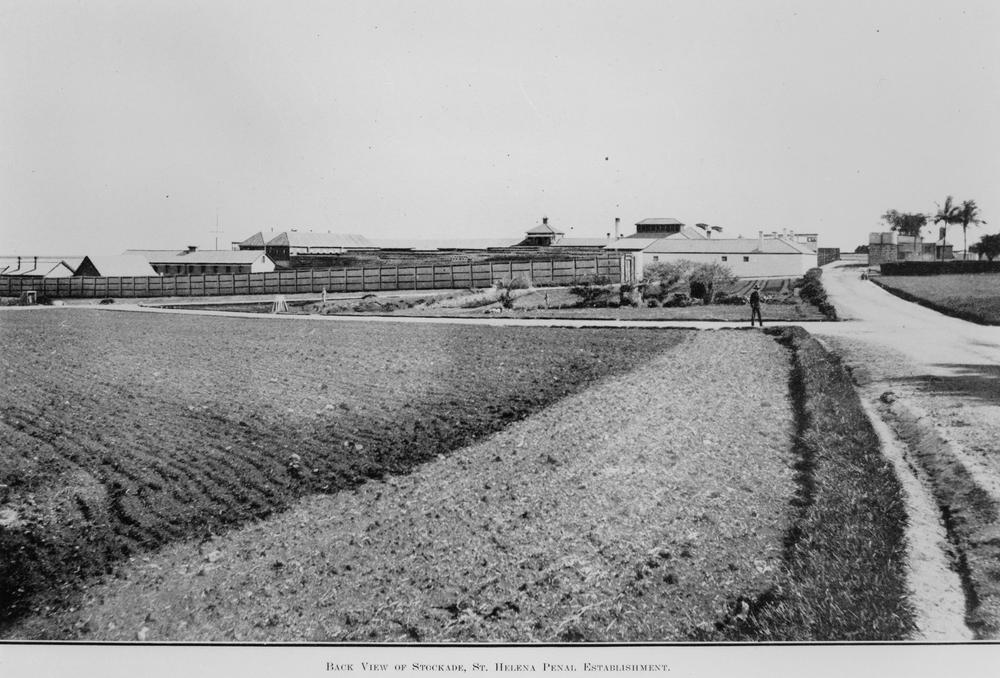 Rear view of the stockade of the St. Helena penal establishment, 1914.